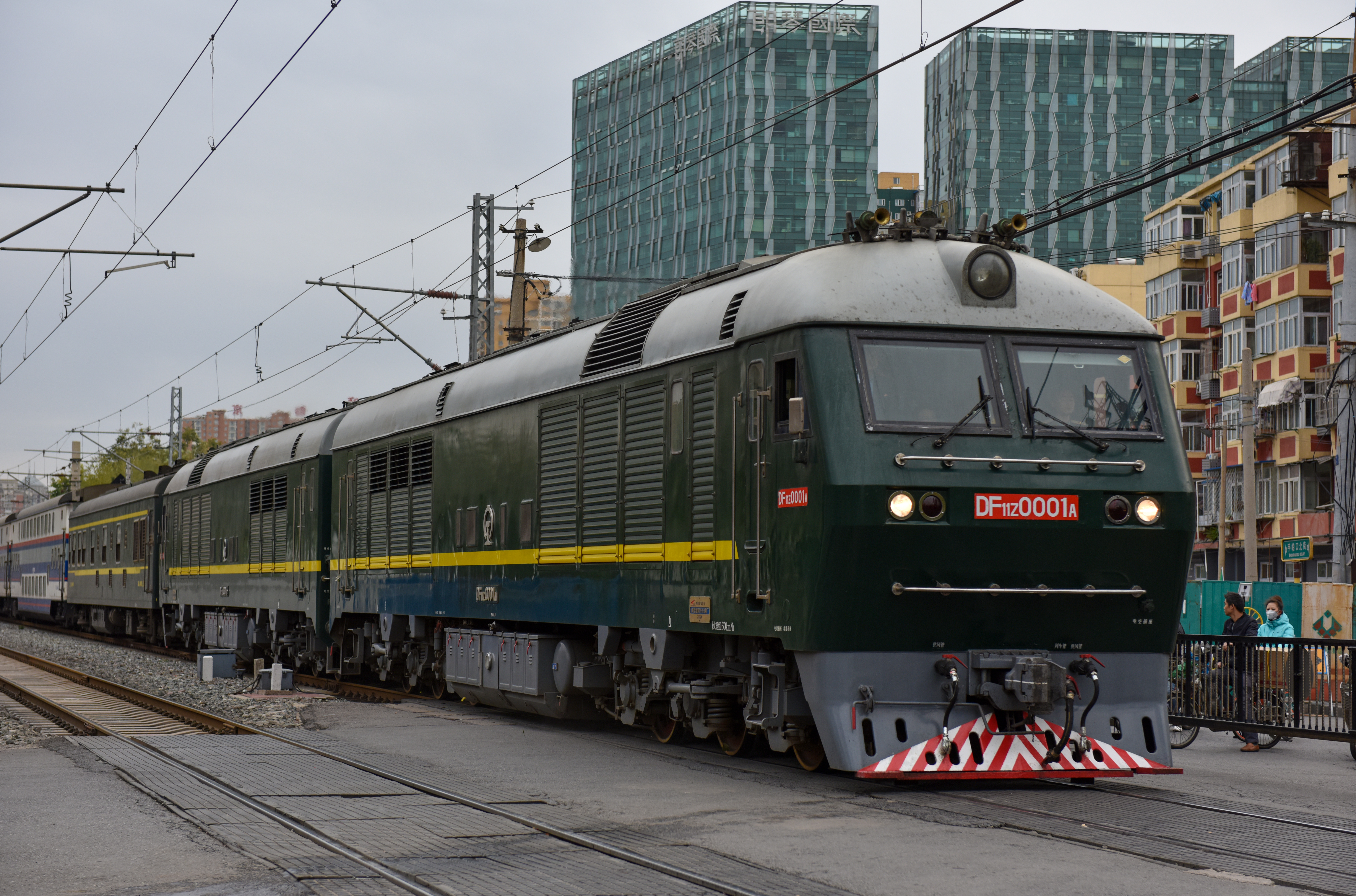 T58 from Tianjin West. Aging but still agile.